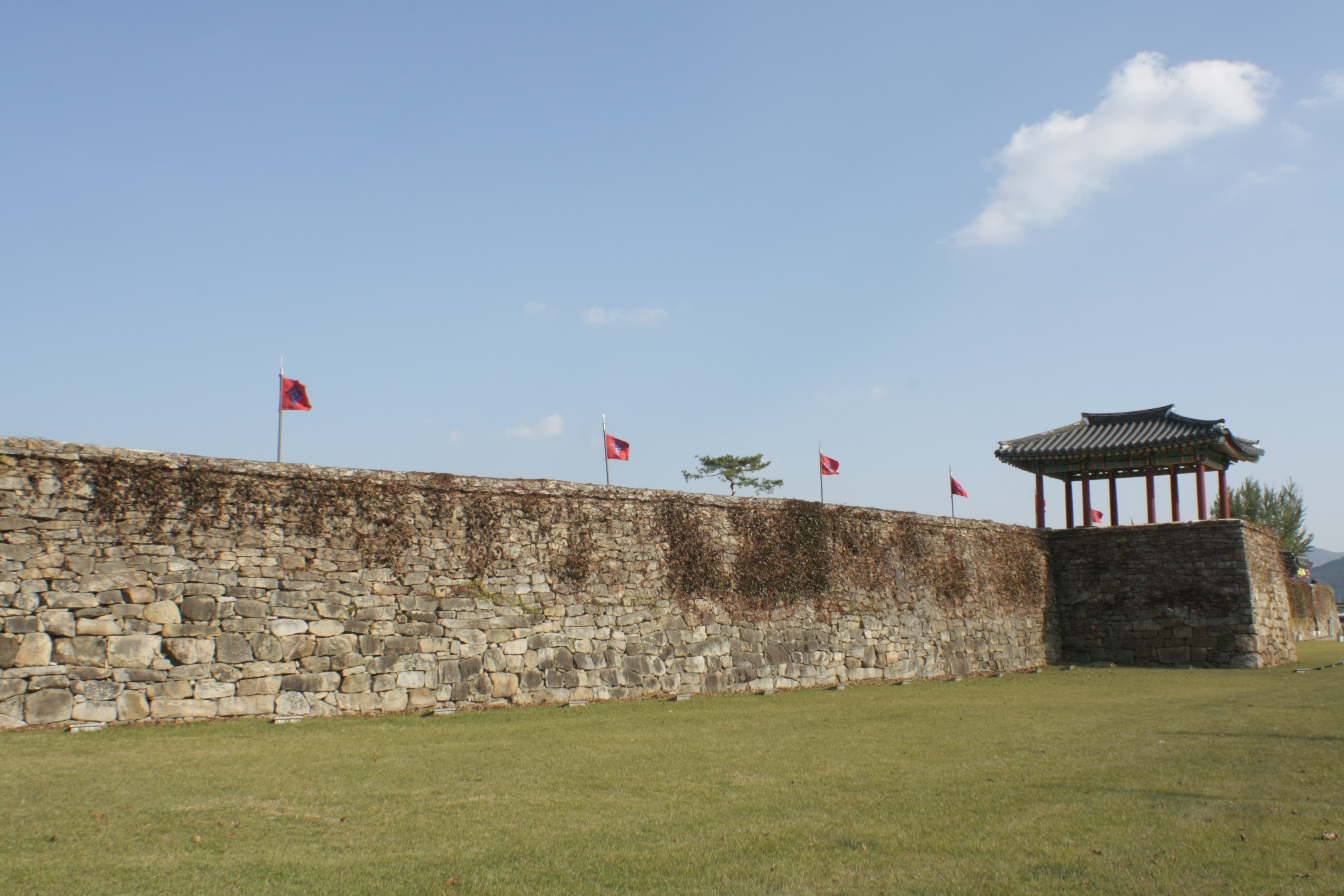 Haemieupseong